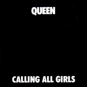 Cover of the Queen single Calling All Girls.